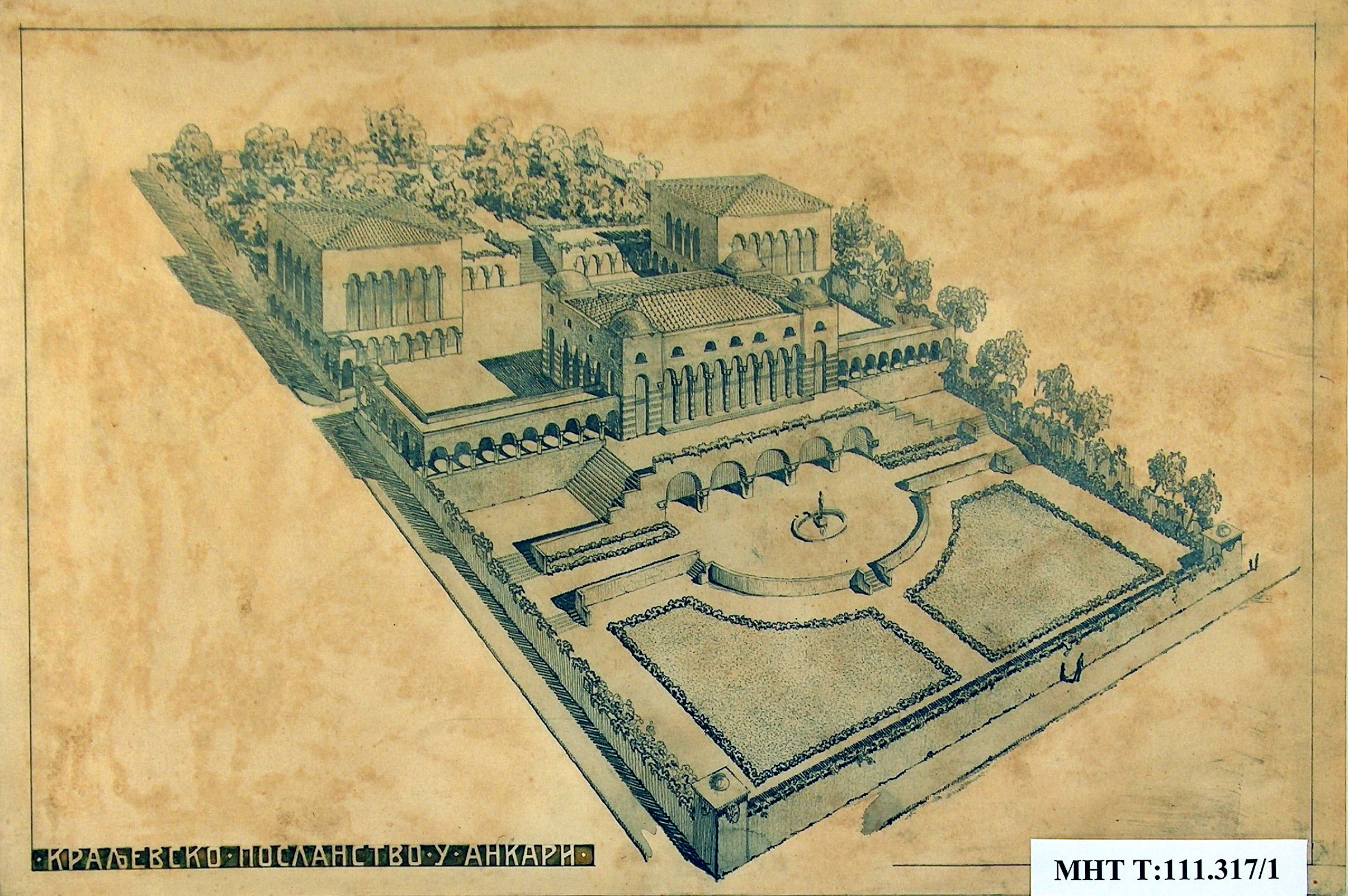 The building of Royal mission in Ankara, projected by Miladin Prljević in 1932.